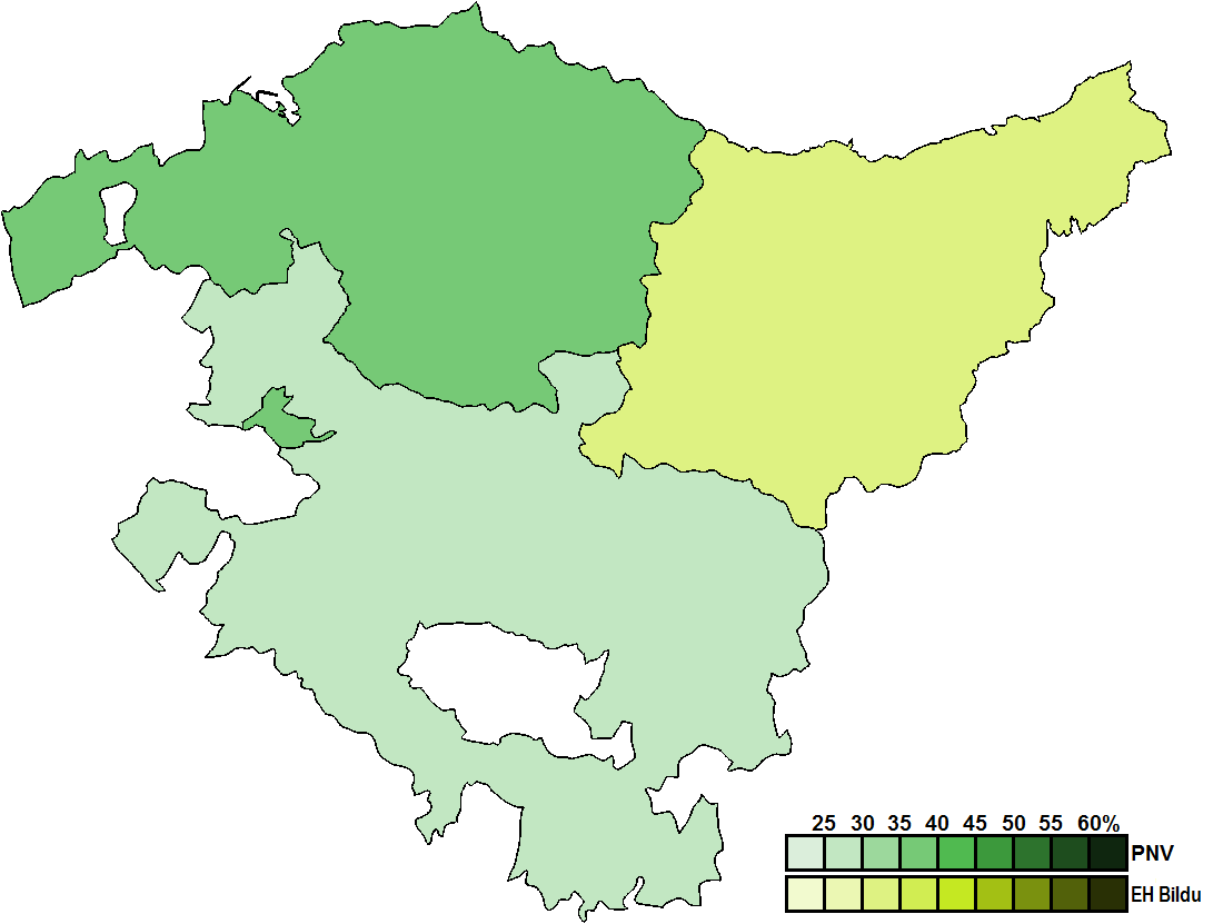 Provincial results for the 2012 Basque regional election.